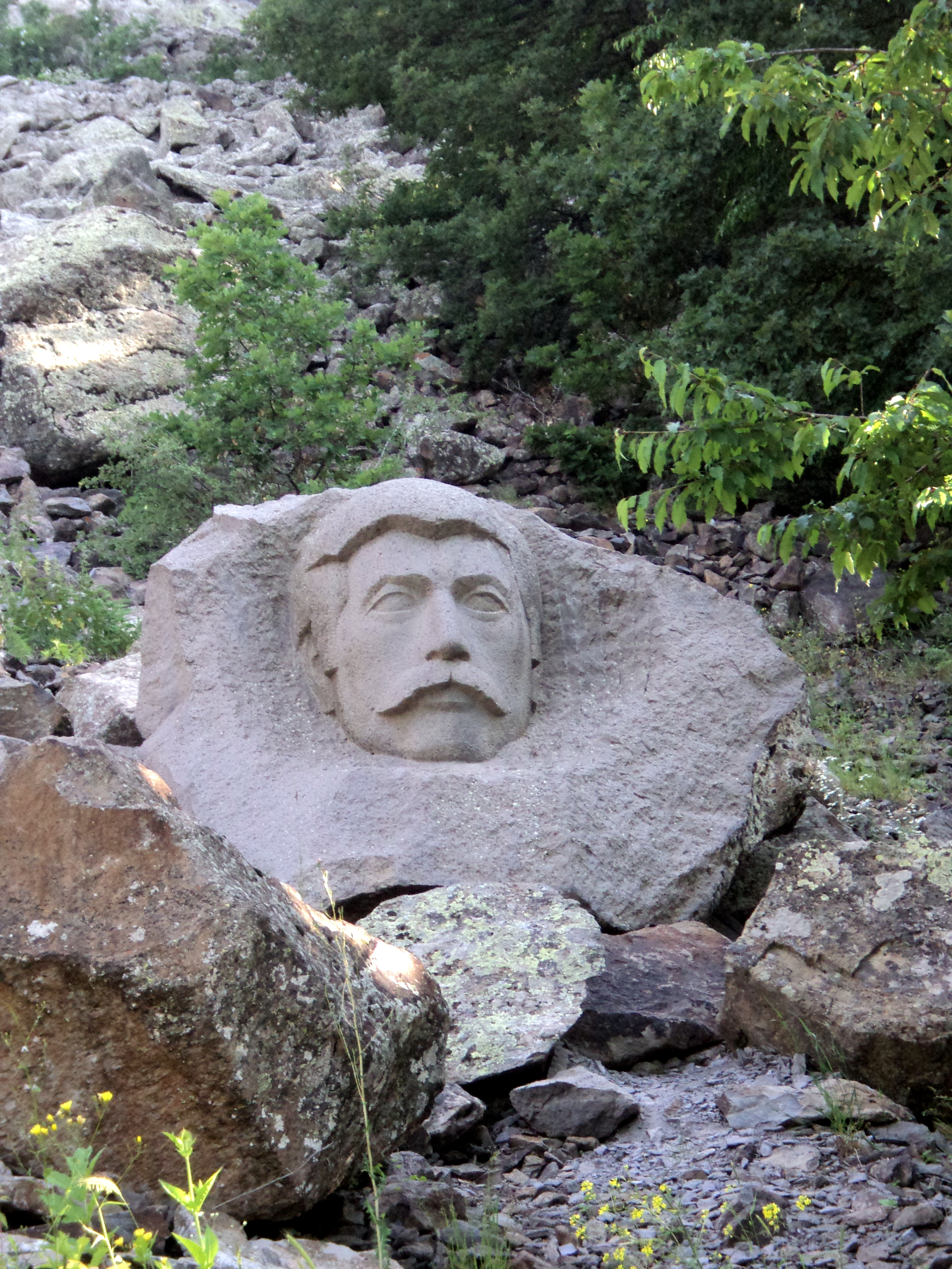 Արաբո (Առաքել, Ստեփանոս Մխիթարյան, 1863 - 1893), հայ ազգային-ազատագրական շարժման գործիչ, առաջին ֆիդայիներից (1880-ականներին)։ Քանդակը գտնվում է Ջերմուկ քաղաքում,հեղինակ` Հովհաննես Մուրադյան